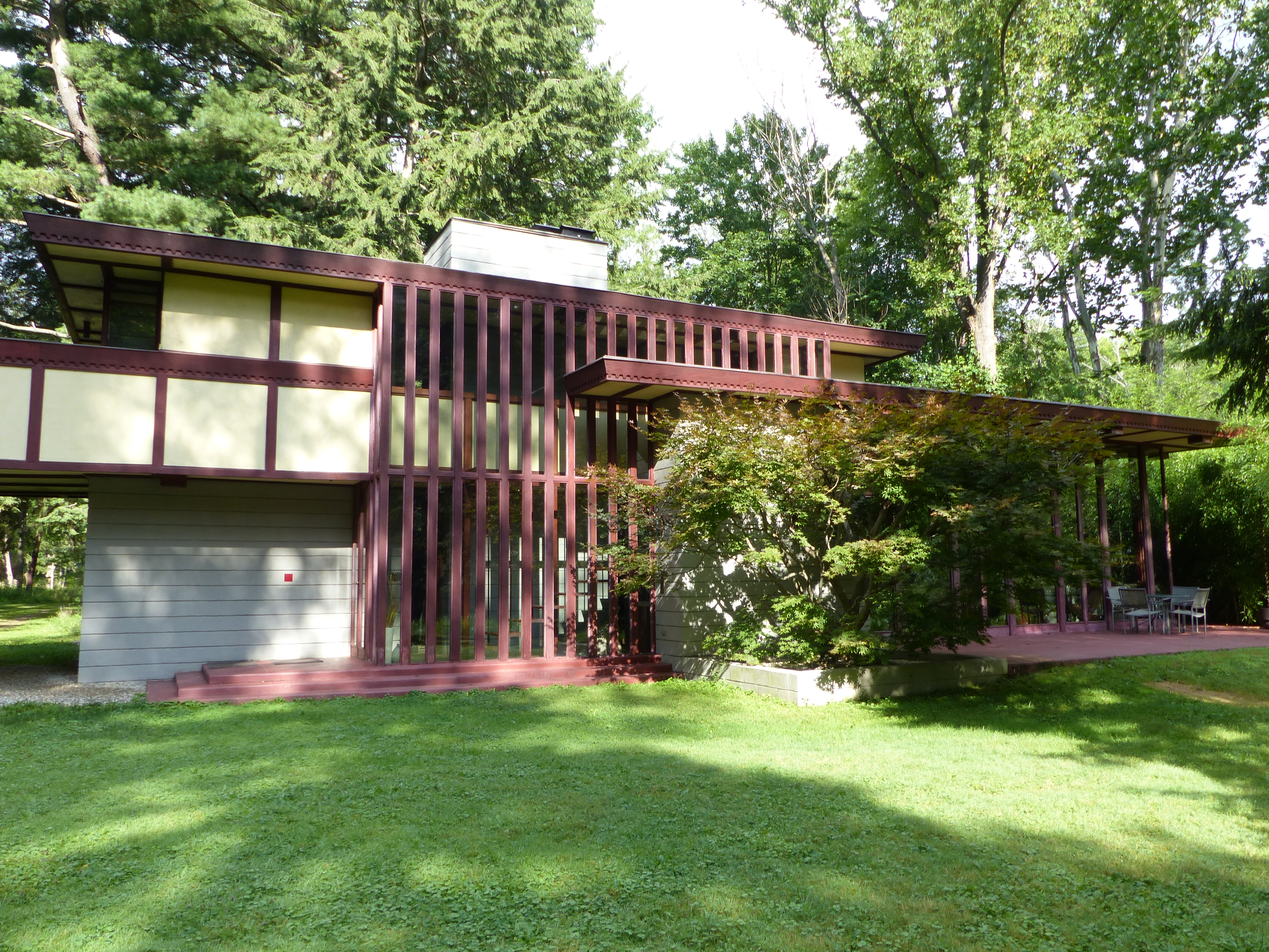 east facade minus carport